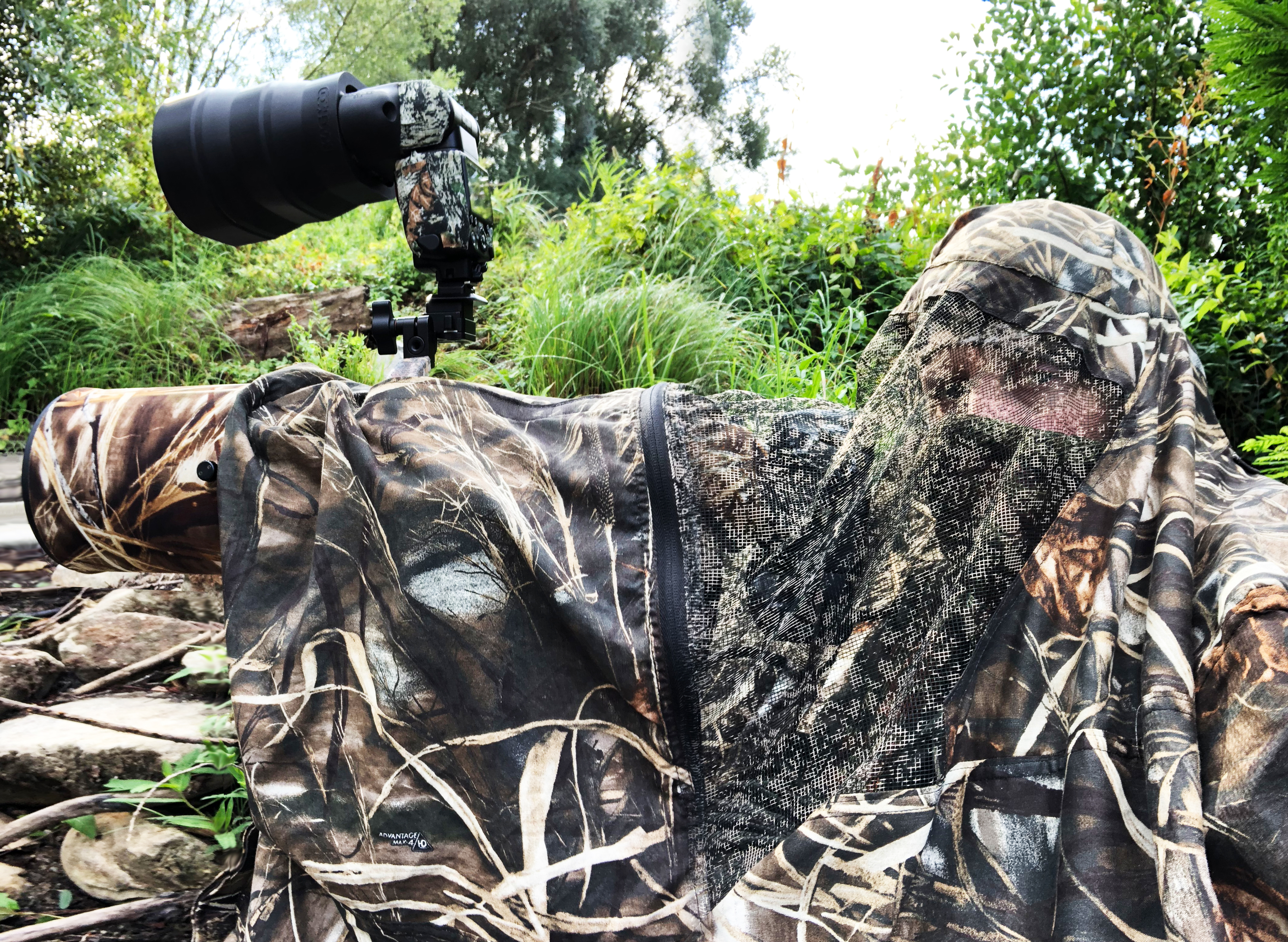 wildlife photography requires usually a good camouflage. Long lenses, cameras with high ISO capacities and flash extender are common parts of the (very expensive) equipment